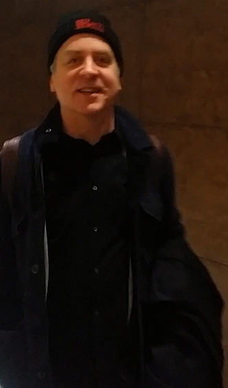 Jeremy Denk photographed in Montréal, Québec, Canada at the MBAM Bourgie Hall.